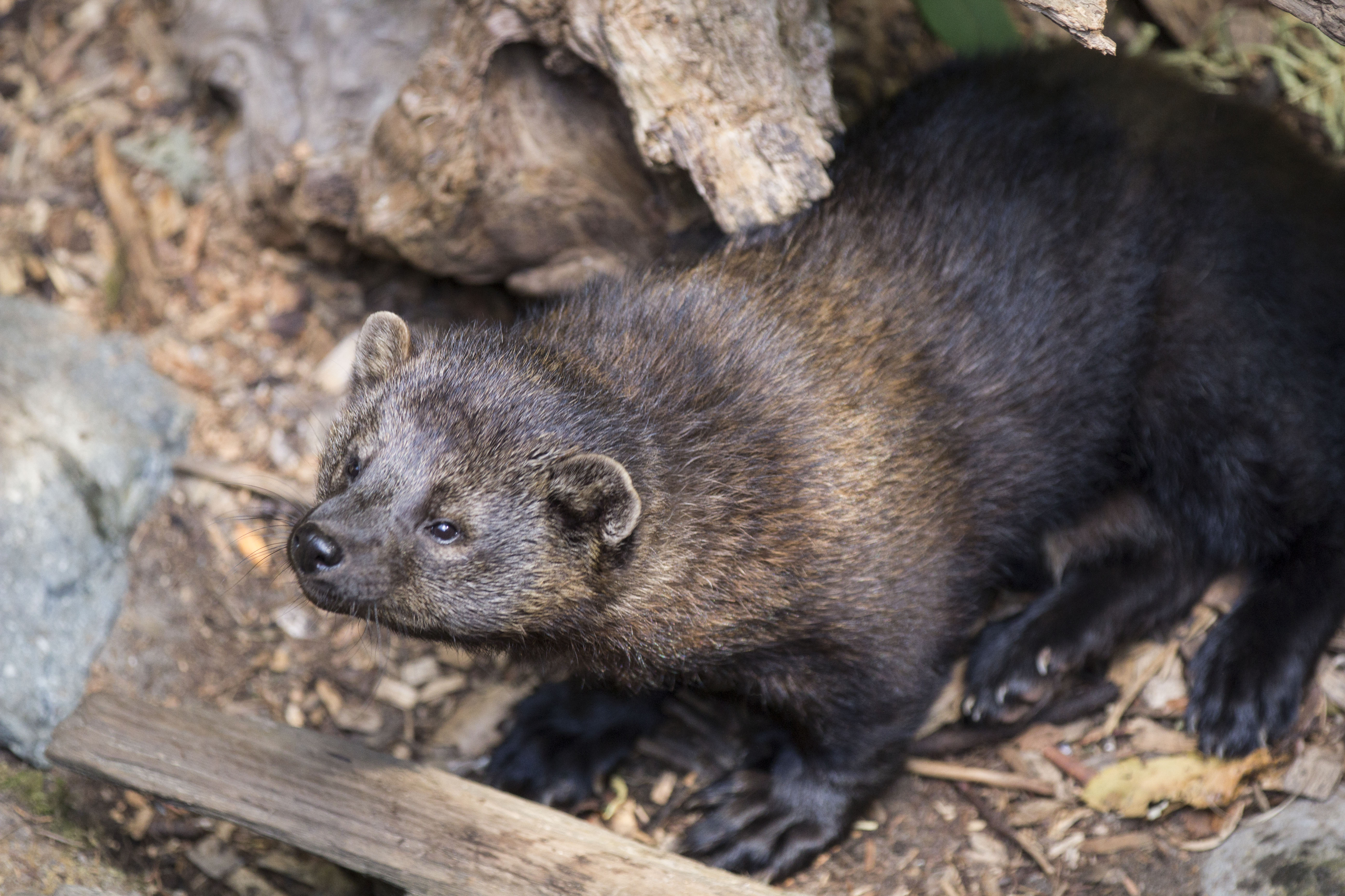 NPS photo by Emily Brouwer